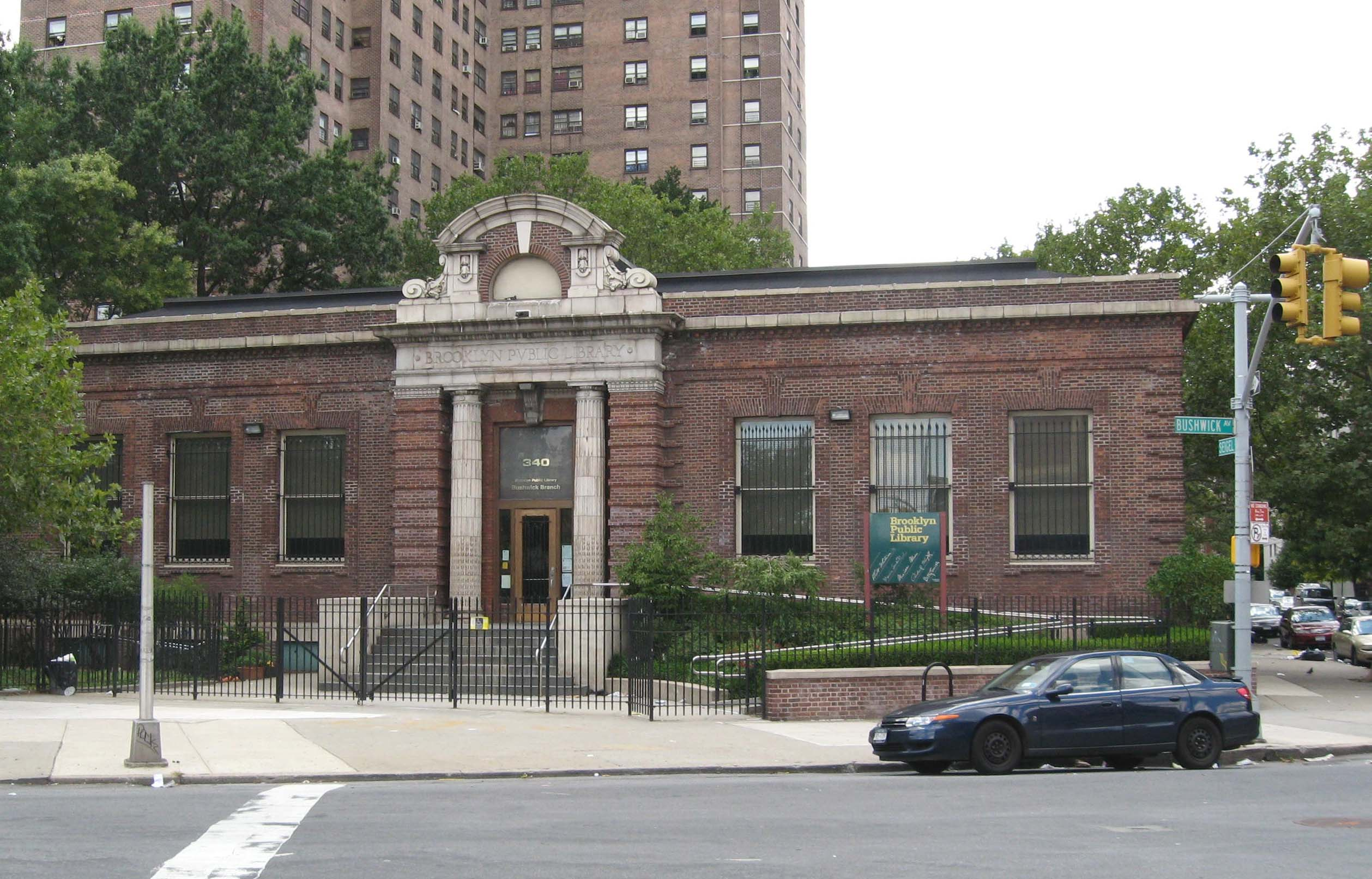 Looking west at Bushwick, Brooklyn branch of BPL on a mostly sunny midday. ZIP 11206.